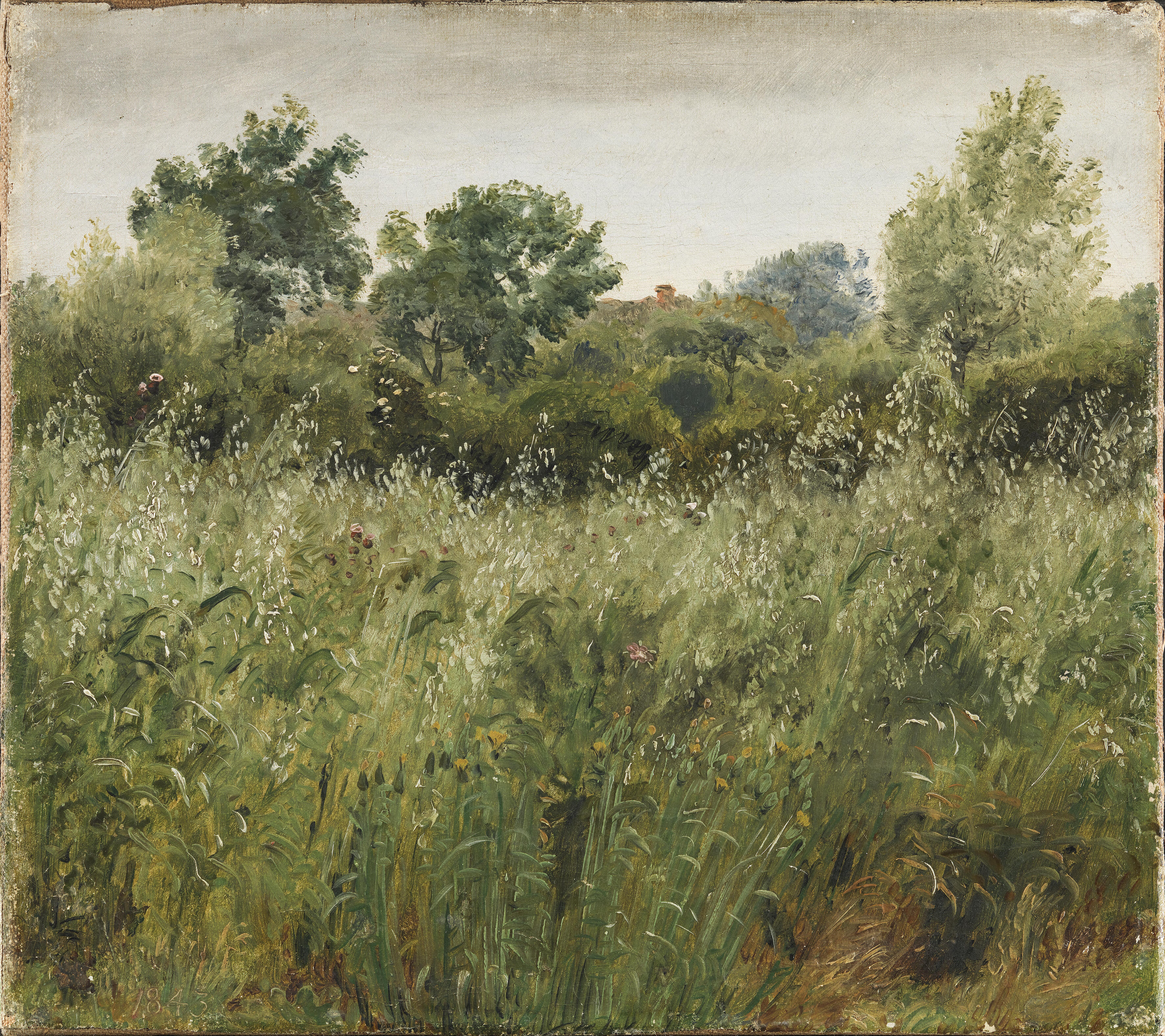 Havremark ved Vejby (1843), oil painting, 25.5 cm x 28.5 cm, Statens Museum for Kunst, KMS4950